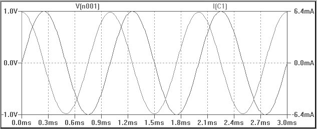 Circuit simulation of a 1uF capacitor fed with 1 V amplitude at 1 kHz. Picture shows current(left) and voltage (right)